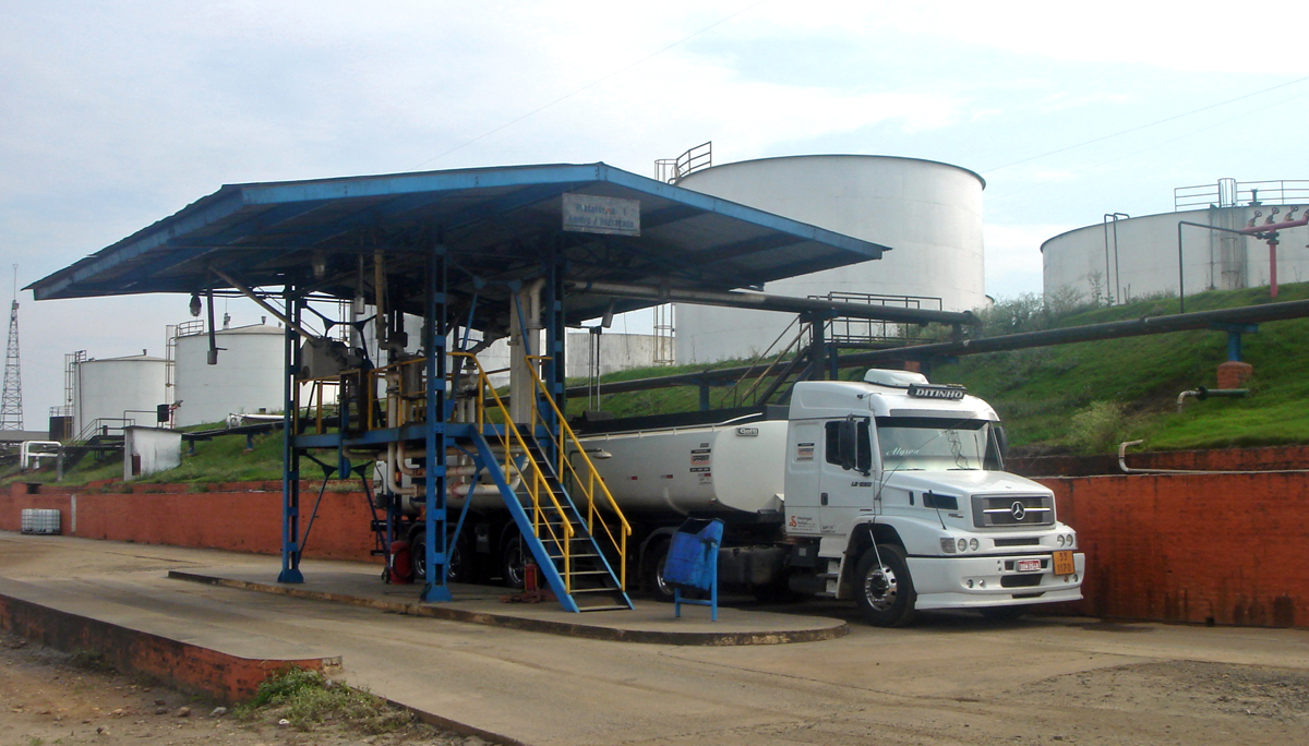 Cistern truck filling with ethanol fuel for distribution. Usina Costa Pinto, Piracicaba, São Paulo, Brazil.